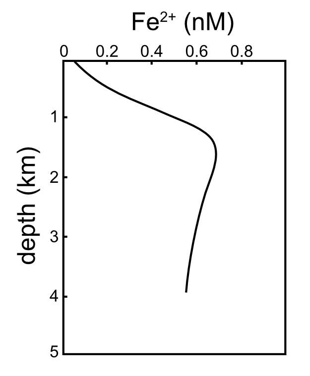 Concentration of iron versus depth in the ocean